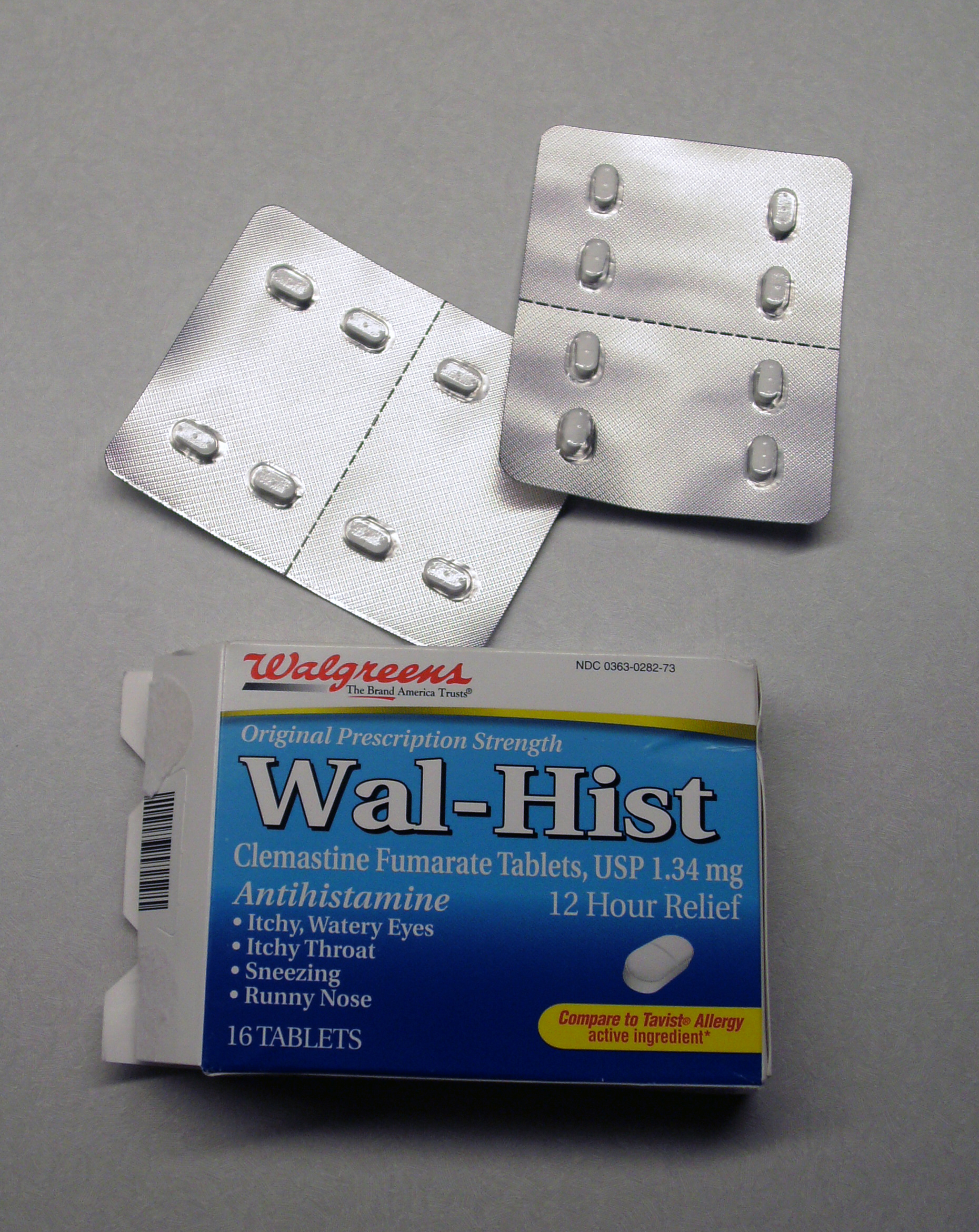 Cropped from an image taken by me for Wikipedia